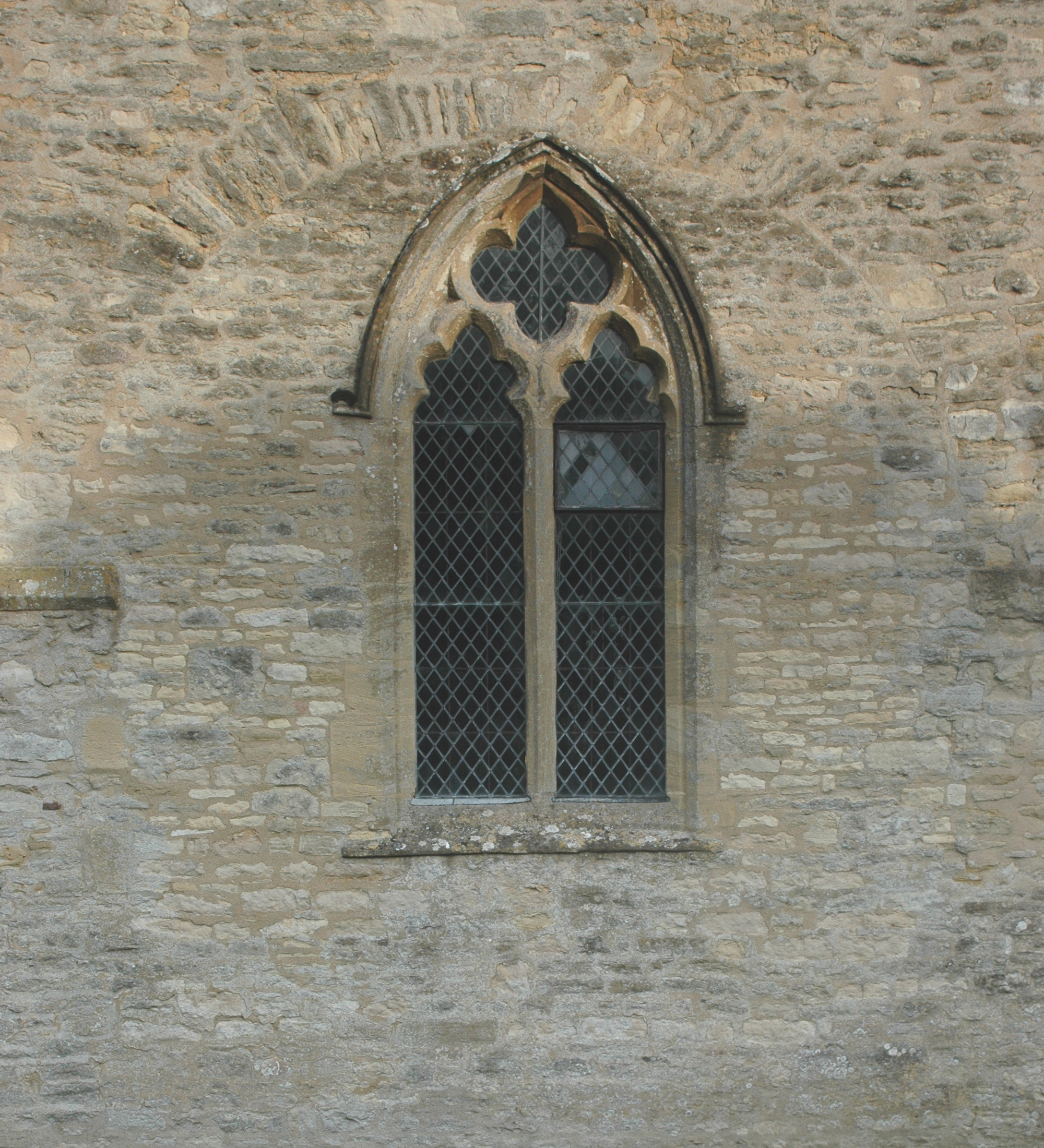 Decorated Gothic window in a blocked Saxon arch at St Mary's parish church, North Leigh, West Oxfordshire, England